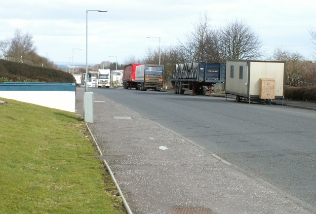 Wardpark industrial estate, Cumbernauld. This area just off the A80 is full of distribution centres and industrial buildings all with easy reach of much of Scotland's population. The truck is heading for the Co-Op distribution centre just behind my position.